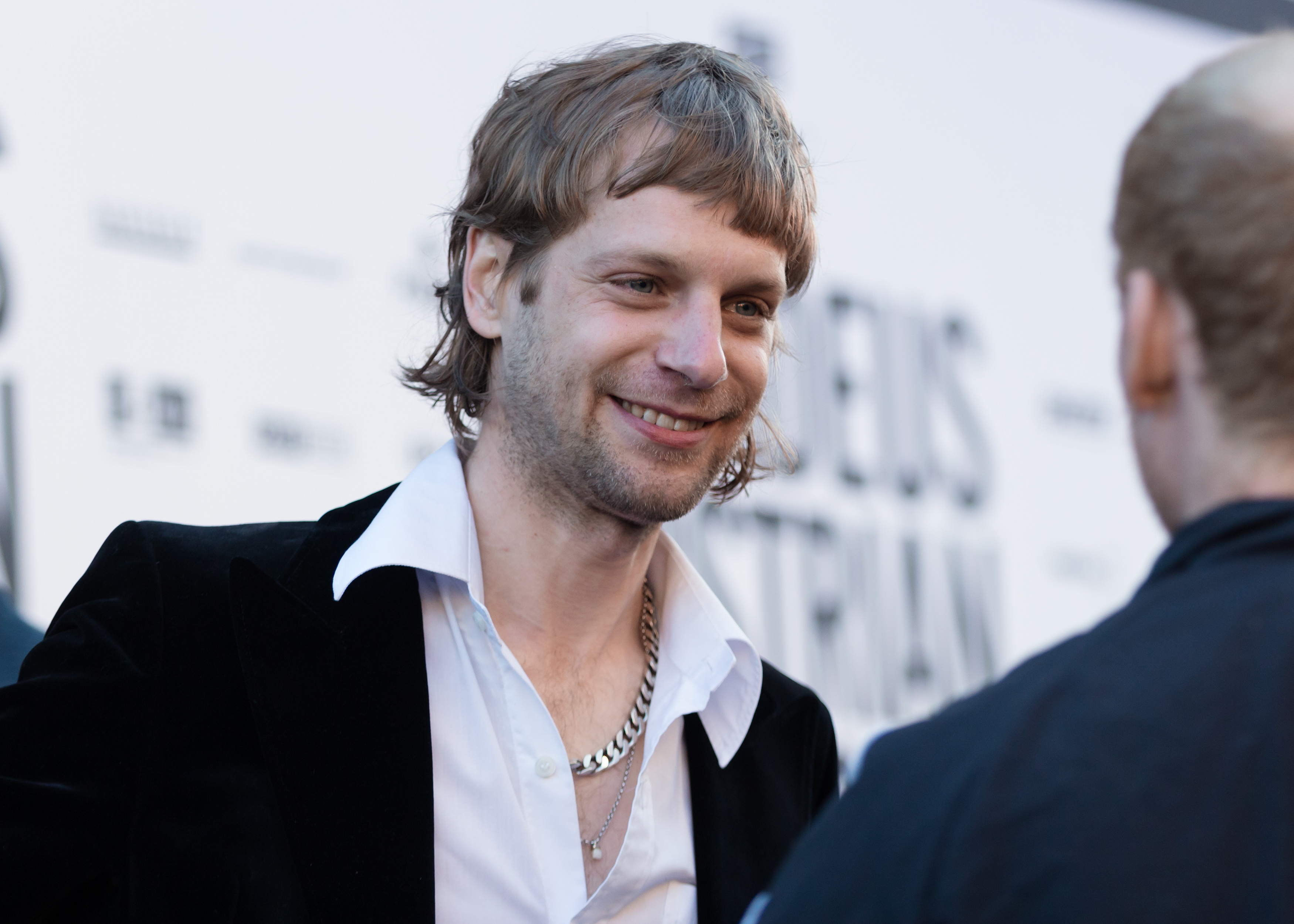 Voodoo Jürgens at the Amadeus Austrian Music Award 2017 at Volkstheater in Vienna.